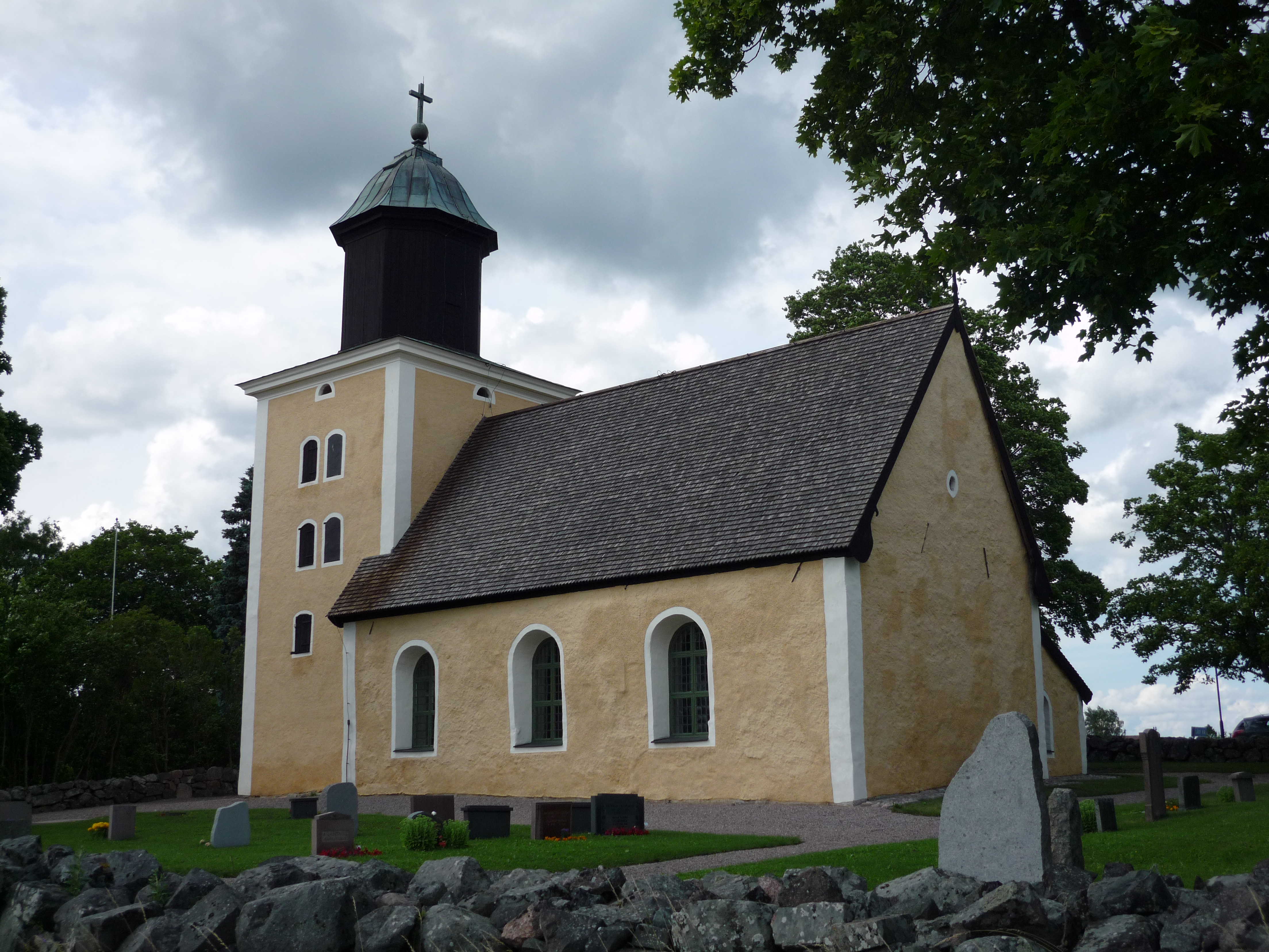 Läby church